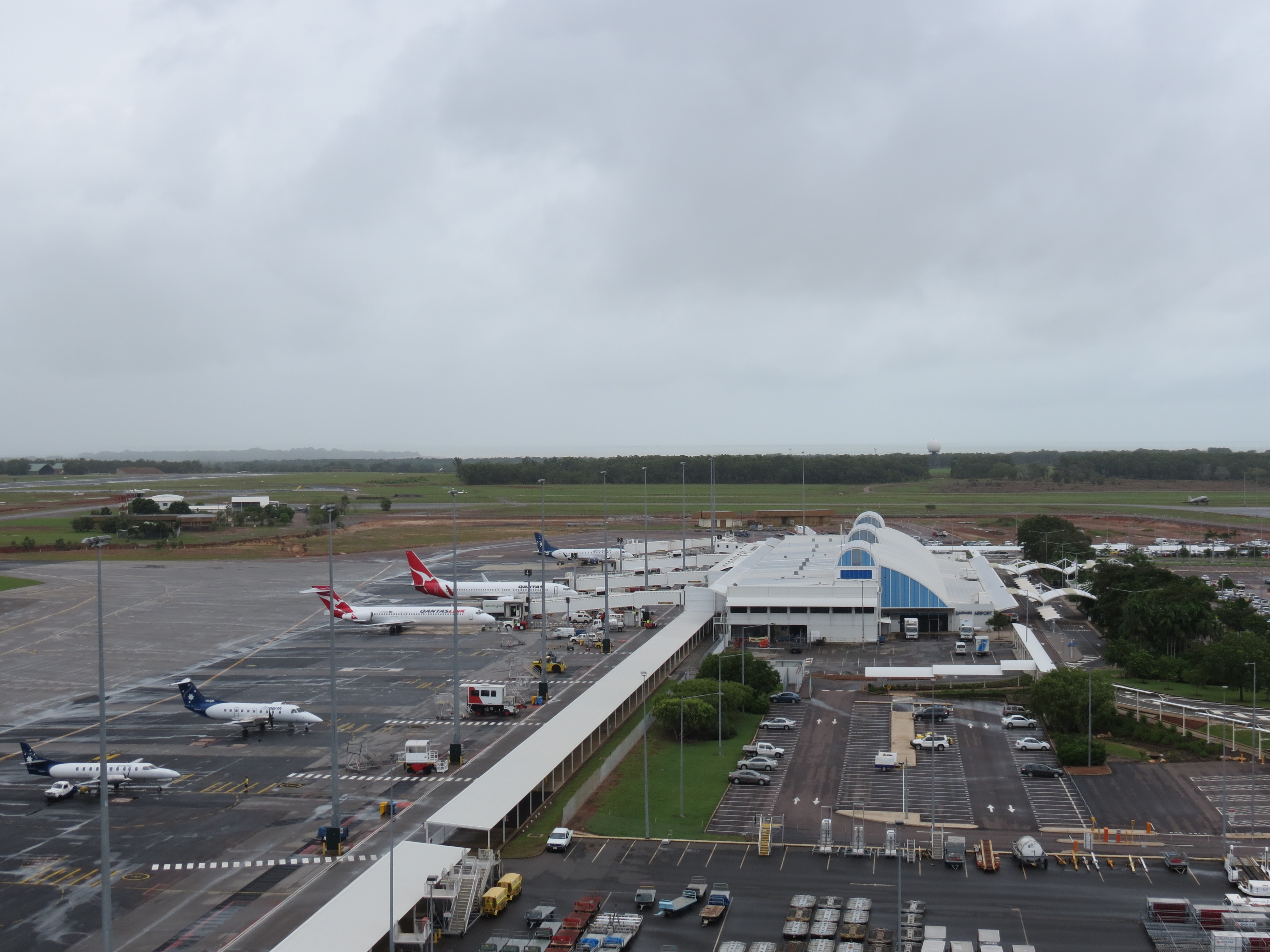 View of Darwin Airport apron and civil terminal from the RAAF Darwin control tower.